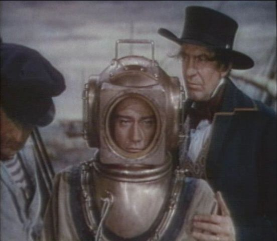 Screenshot of John Wayne from the trailer for the film Reap the Wild Wind